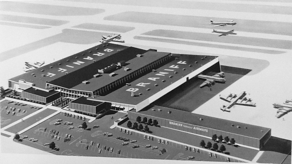 Luckman & Pereira design in graphical form prior to construction. Building located at 7701 Lemmon Avenue on the east side of Dallas Love Field. In 2012, the City of Dallas Aviation Department filed a petition to demolish the building. No public hearing has been held.